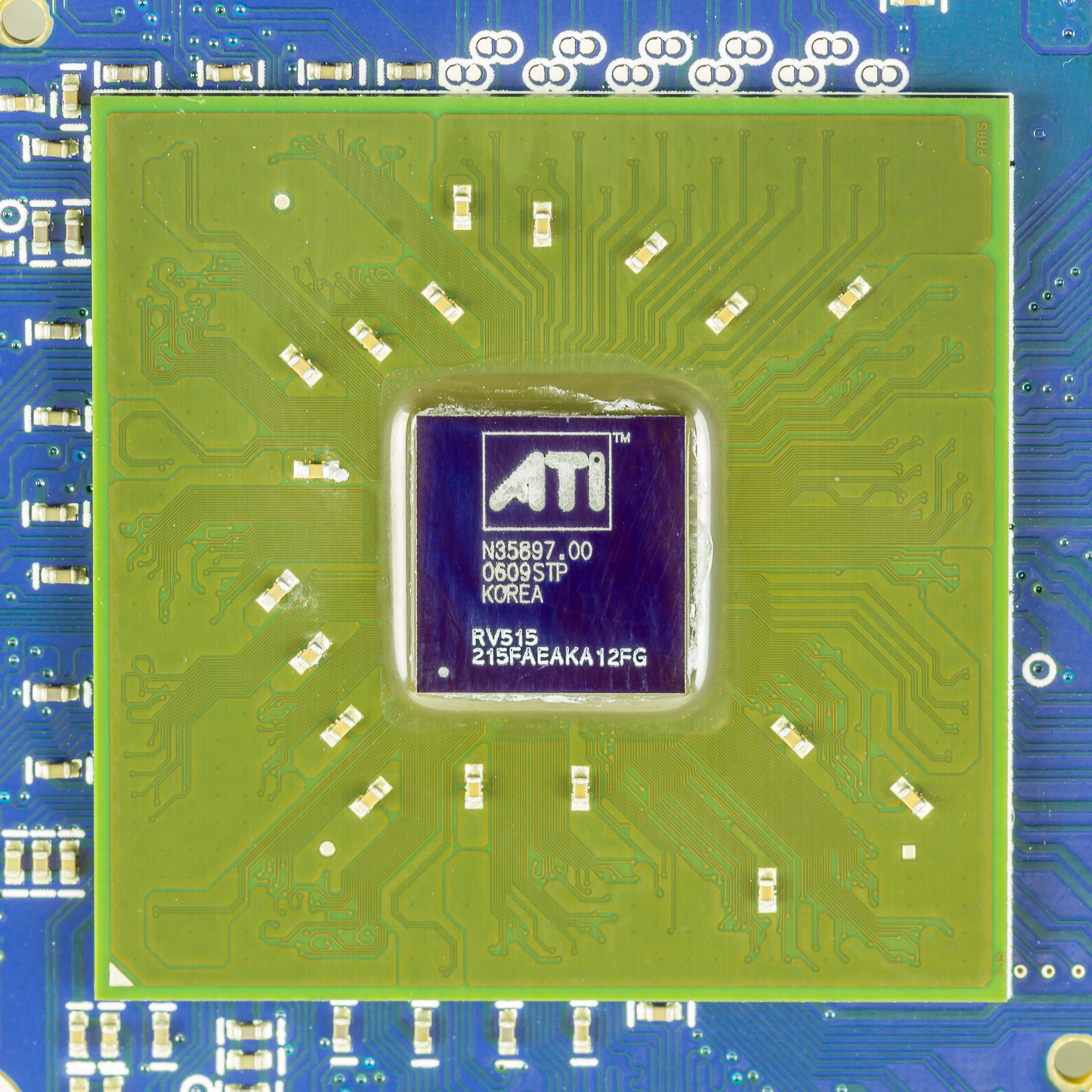 ATI Radeon X1300 256MB - RV515 GPU